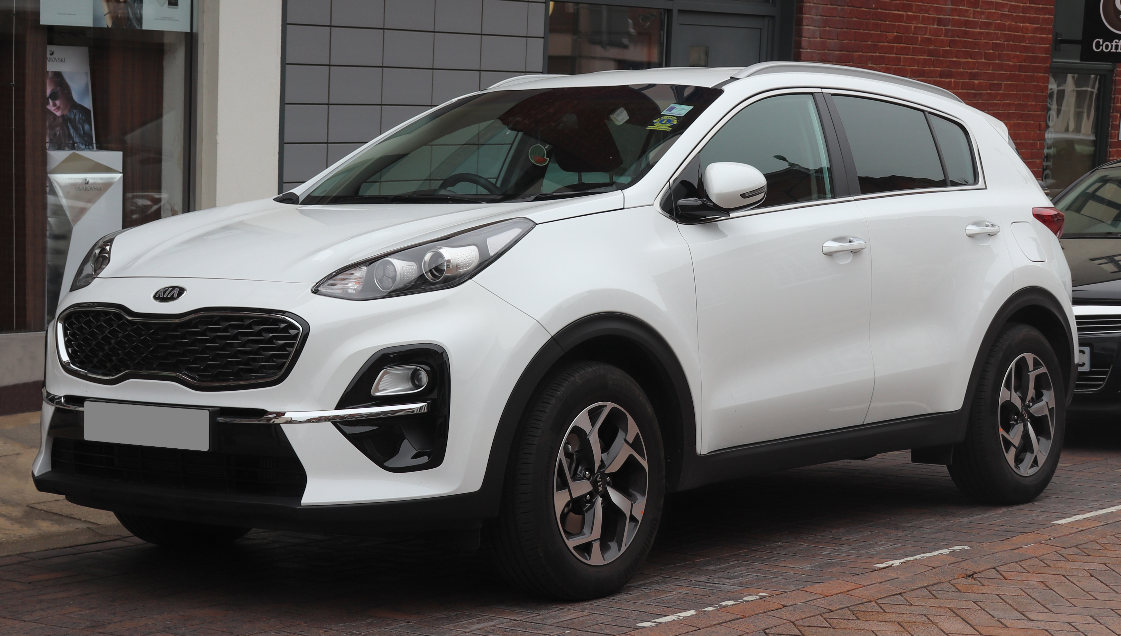 2019 Kia Sportage 2 CRDi ISG S-A 1.6 Front Taken in Warwick